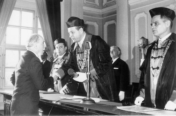 Előd Halász, dean of faculty of arts (he is right)